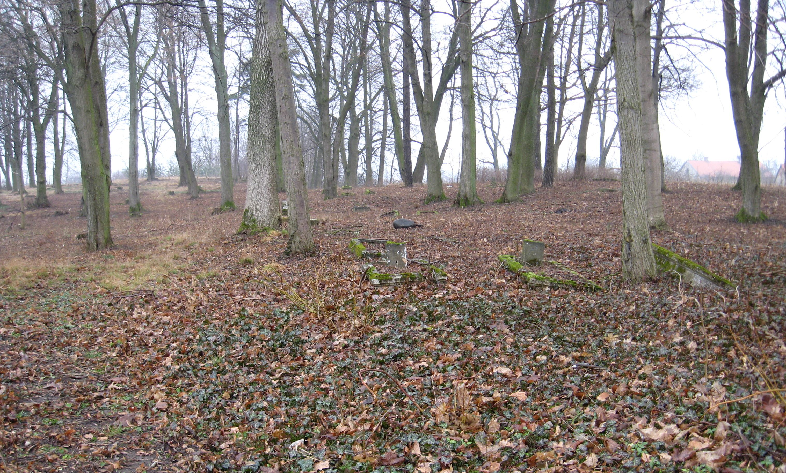 Radosze in Poland, Former German Cemetery - OpenStreetMap (Info)